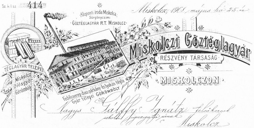 Miskolc Brick Yard corporate stationery, 1908